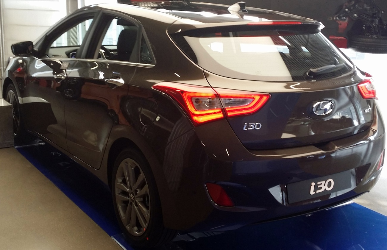 Hyundai The New i30